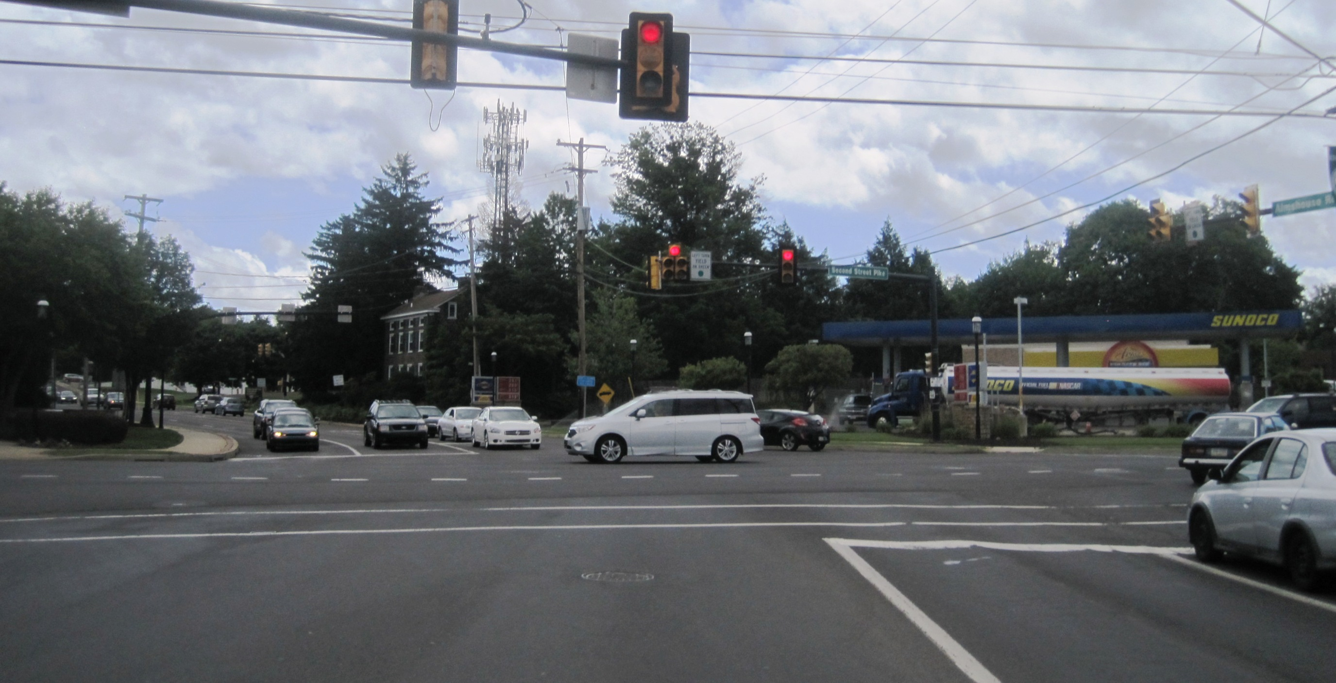 Photo of the census designated place of Richboro, Pennsylvania within Northampton Township, Bucks County, Pennsylvania. Photo taken along eastbound Almshouse Road (Pennsylvania Route 332) at Second Street Pike (PA 232).